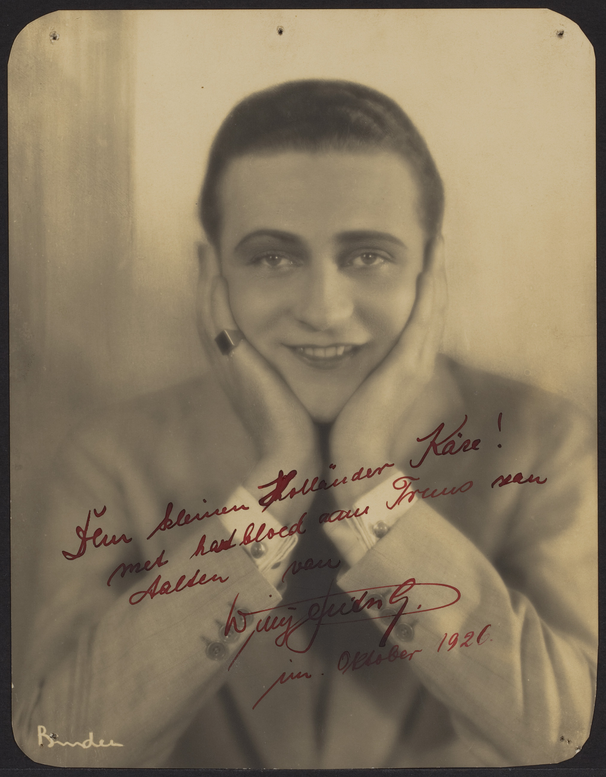 Willy Fritsch (German theater and film actor, 1901-1973) with his signature. 22 x 17 cm.